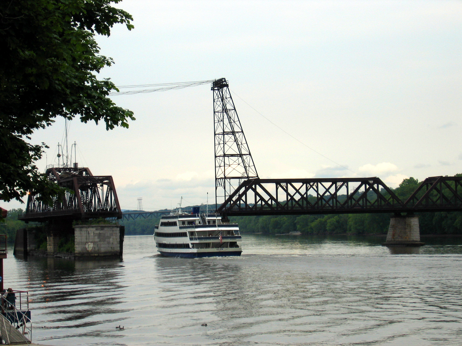 A tour boat heading north passes through the Livingston Avenue Bridge, a railroad swing bridge over the Hudson River in Albany. The image was taken with a Canon PowerShot S50 digital camera.